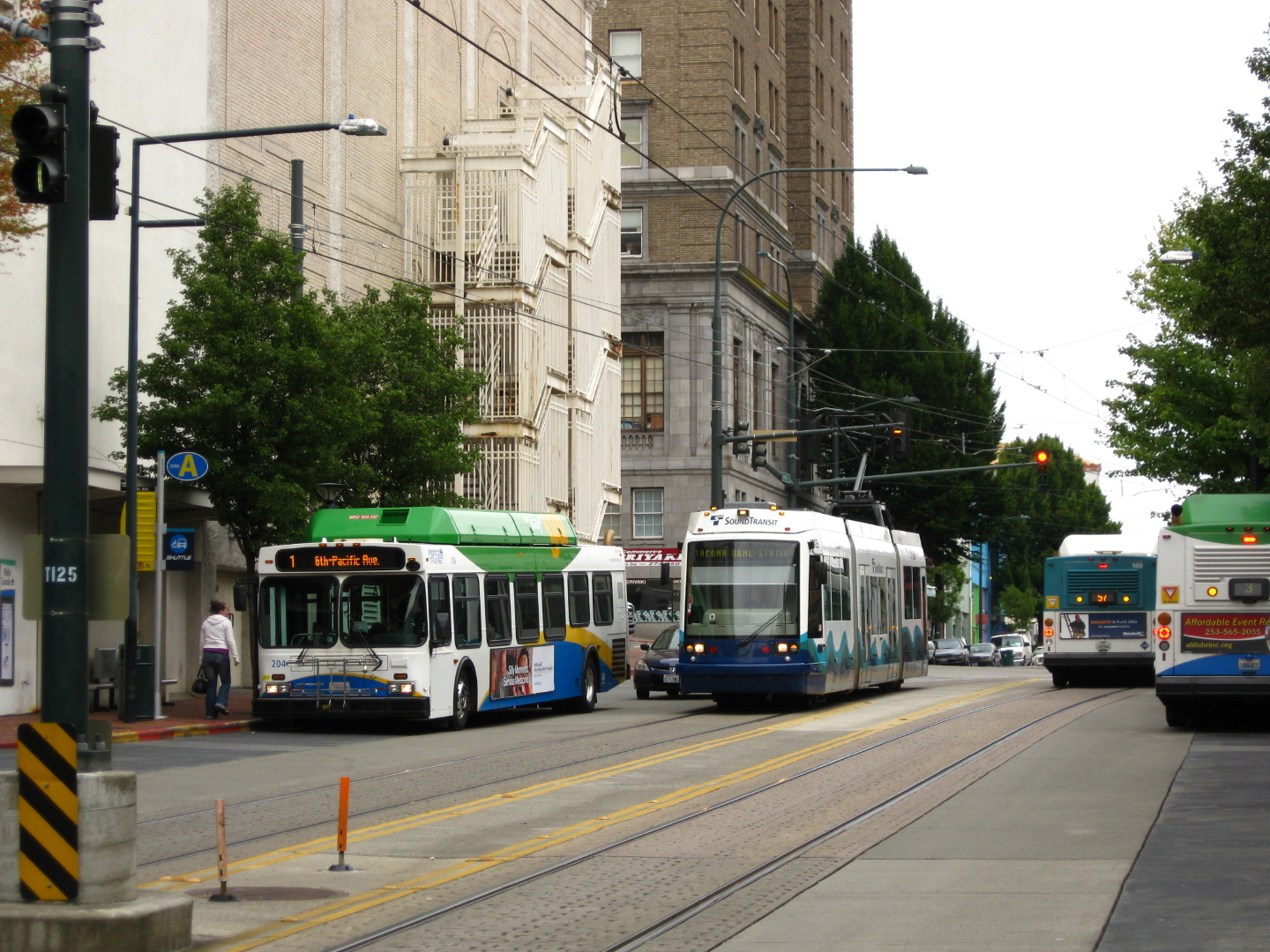 Tacoma Link car 1003 southbound on Commerce Street from the Theater District terminus passes the Pierce Transit transfer location on 14 July 2009.